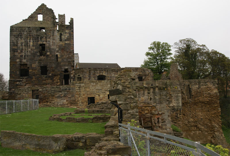 Ravenscraig Castle (Fife, Scotland) - from the south